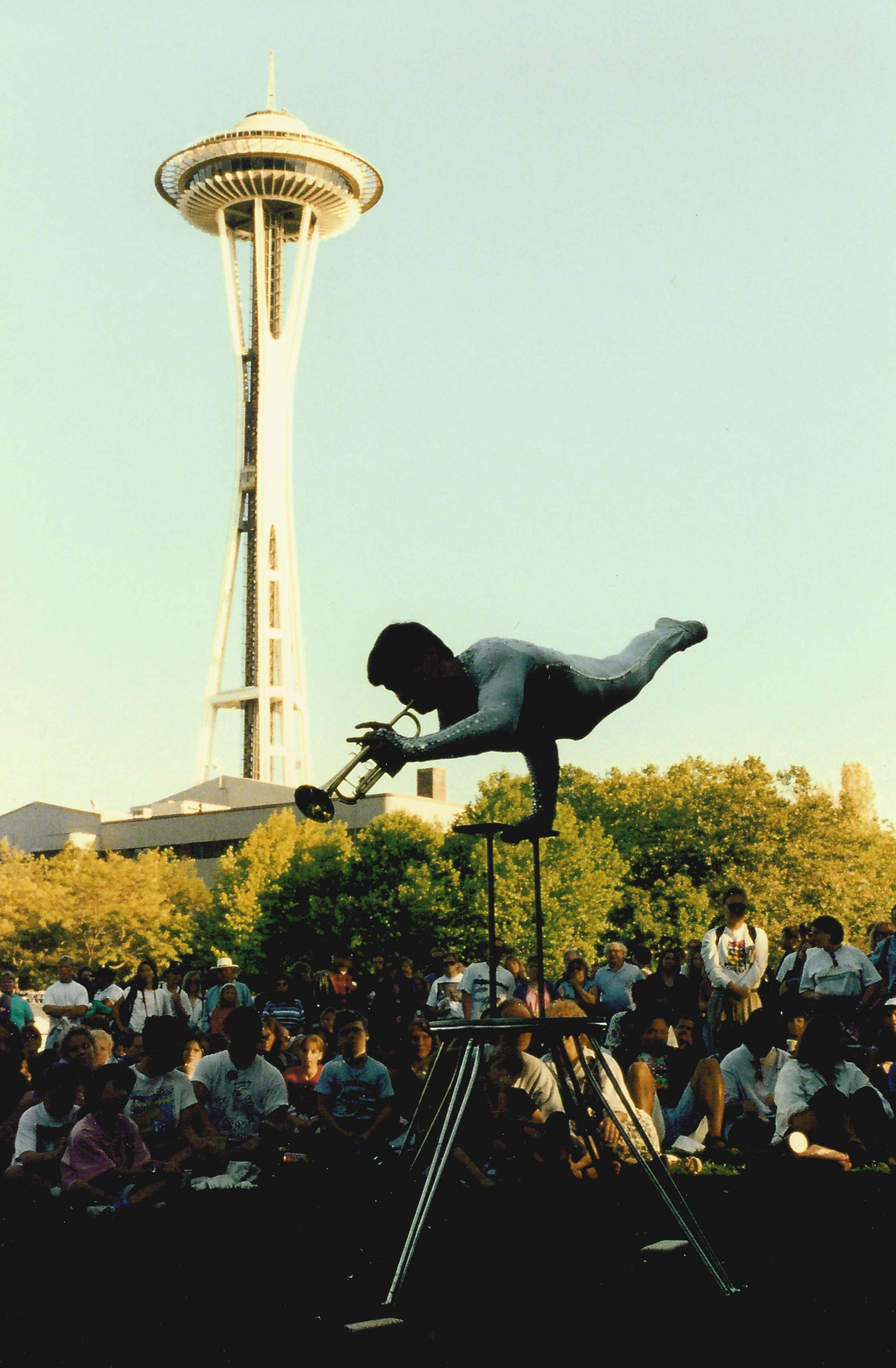 Acrobat playing a trumpet, Bumbershoot festival, Seattle, Washington, 1994, Space Needle in background.